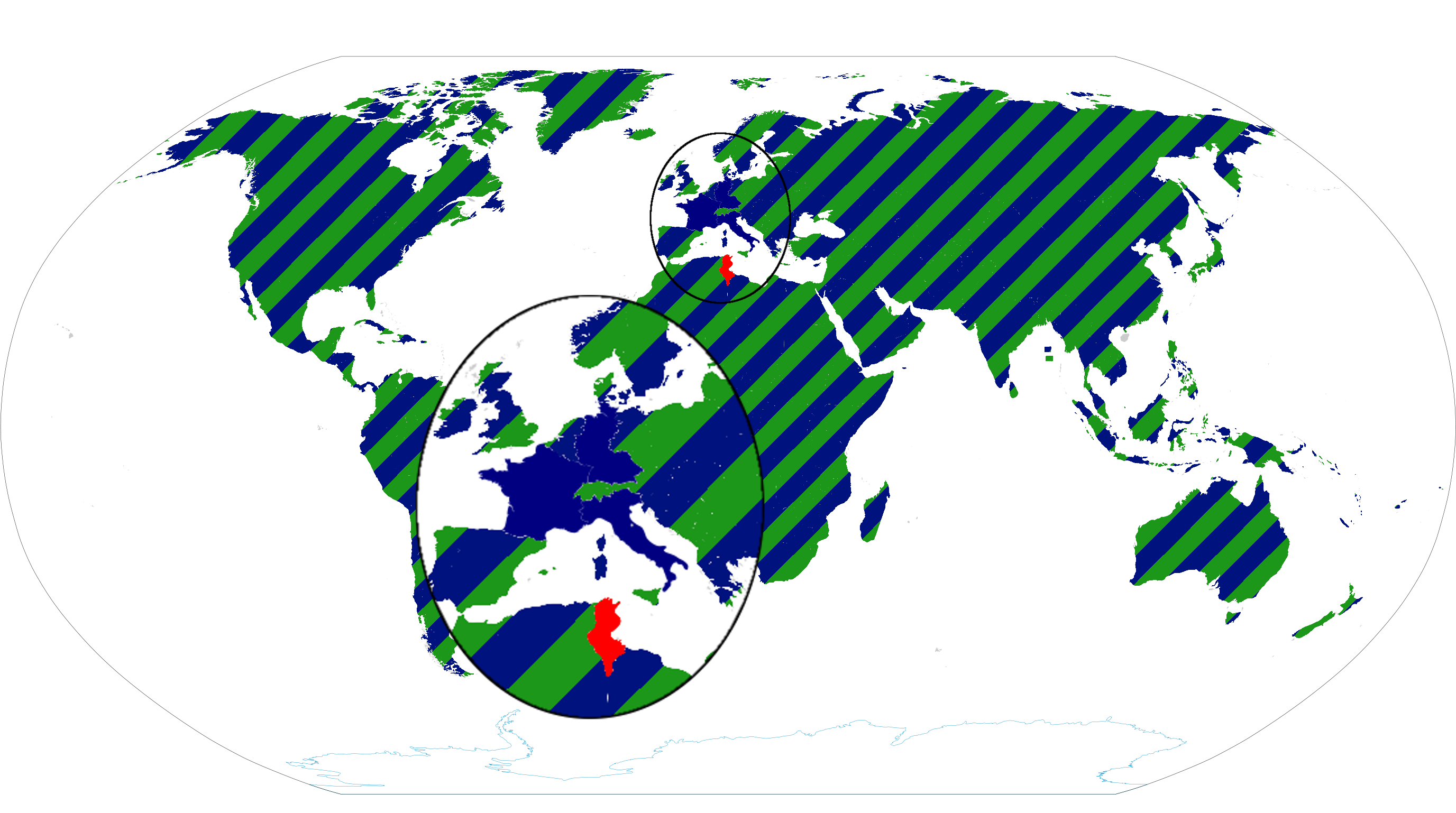 Tunisian Constituent Assembly Elections 2011. Red - Tunisia, Blue - Nahda, Green - CPR